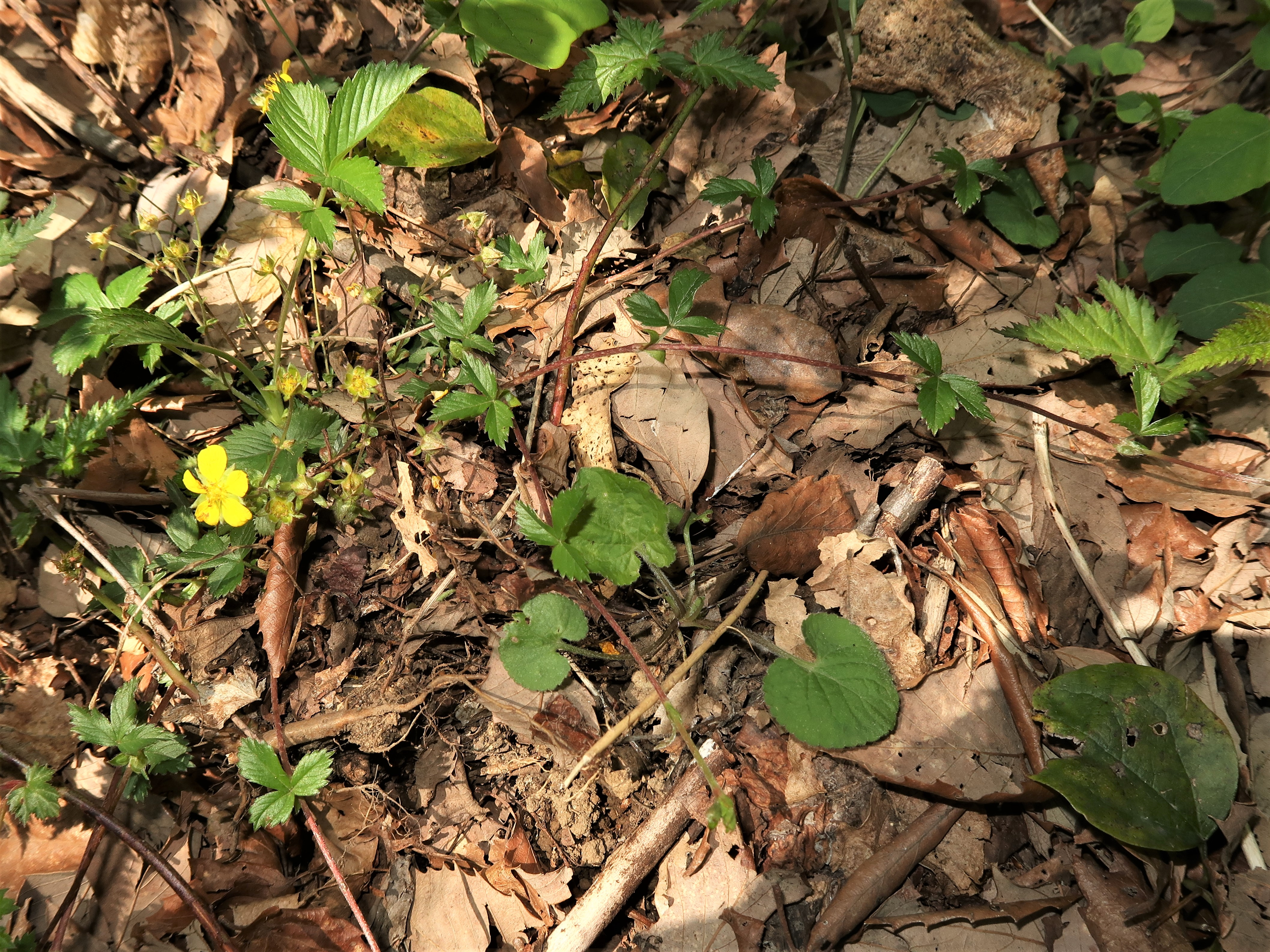 Potentilla toyamensis, Toyama city, Toyama pref., Japan